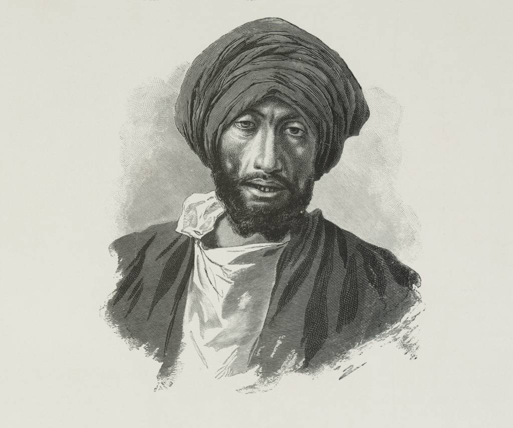 Bust of a Coptic man wearing a turban.